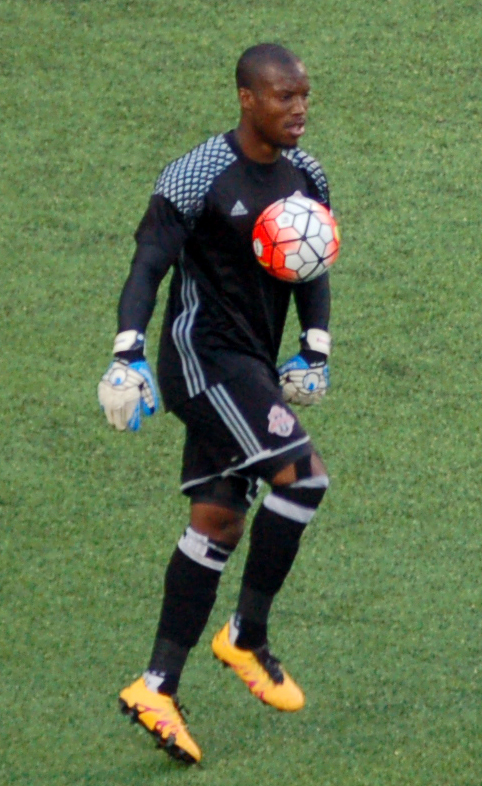 Quillan Roberts (TFC) Taken during a match between FC Cincinnati and Toronto FC II at Nippert Stadium in Cincinnati on June 18, 2016.